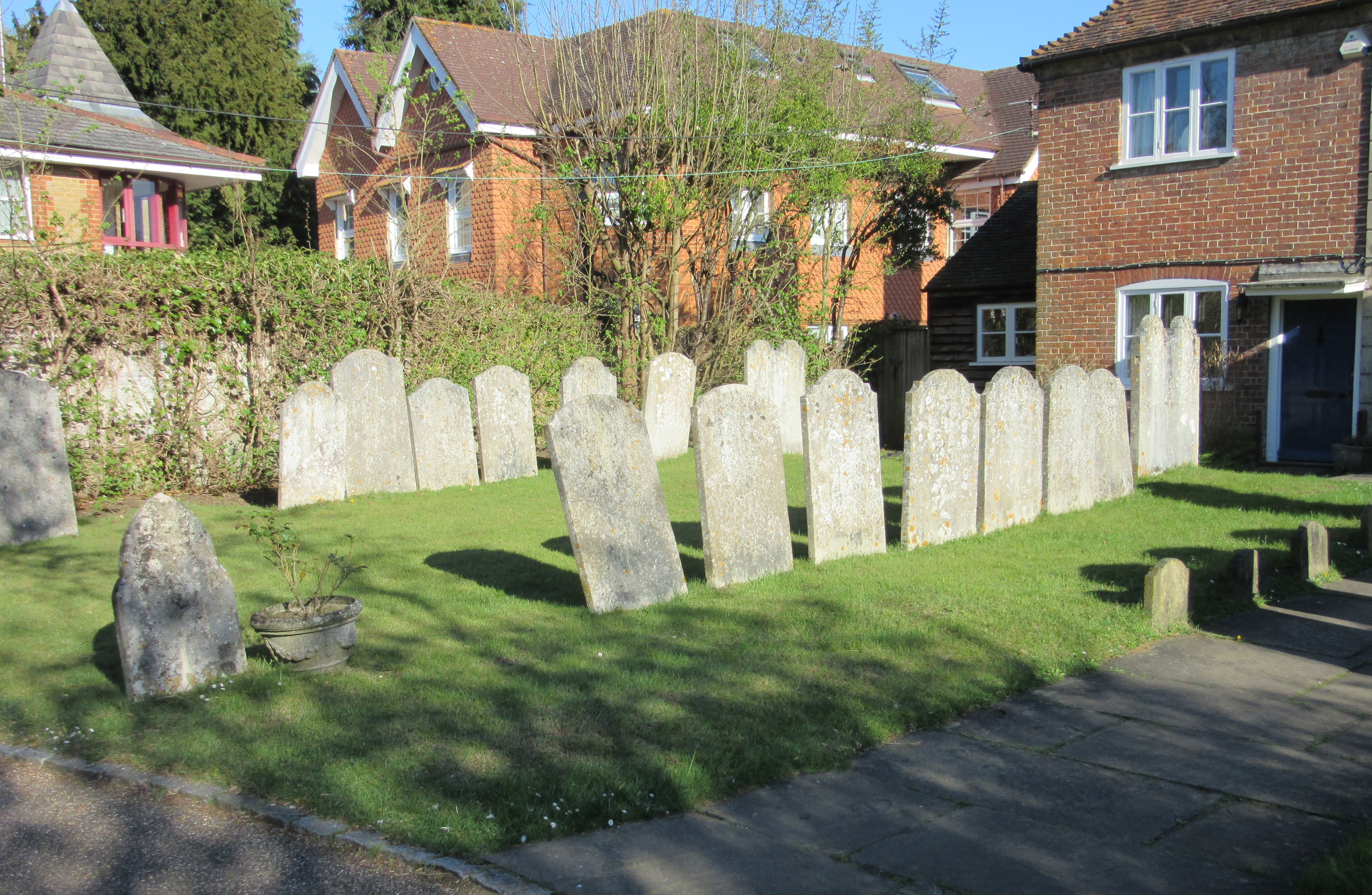 Meadrow Unitarian Chapel, Meadrow, Godalming, Borough of Waverley, Surrey, England.